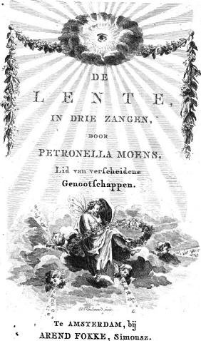 "De lente in drie zangen", published by Arend Fokke in 1788 Book written by Petronella Moens